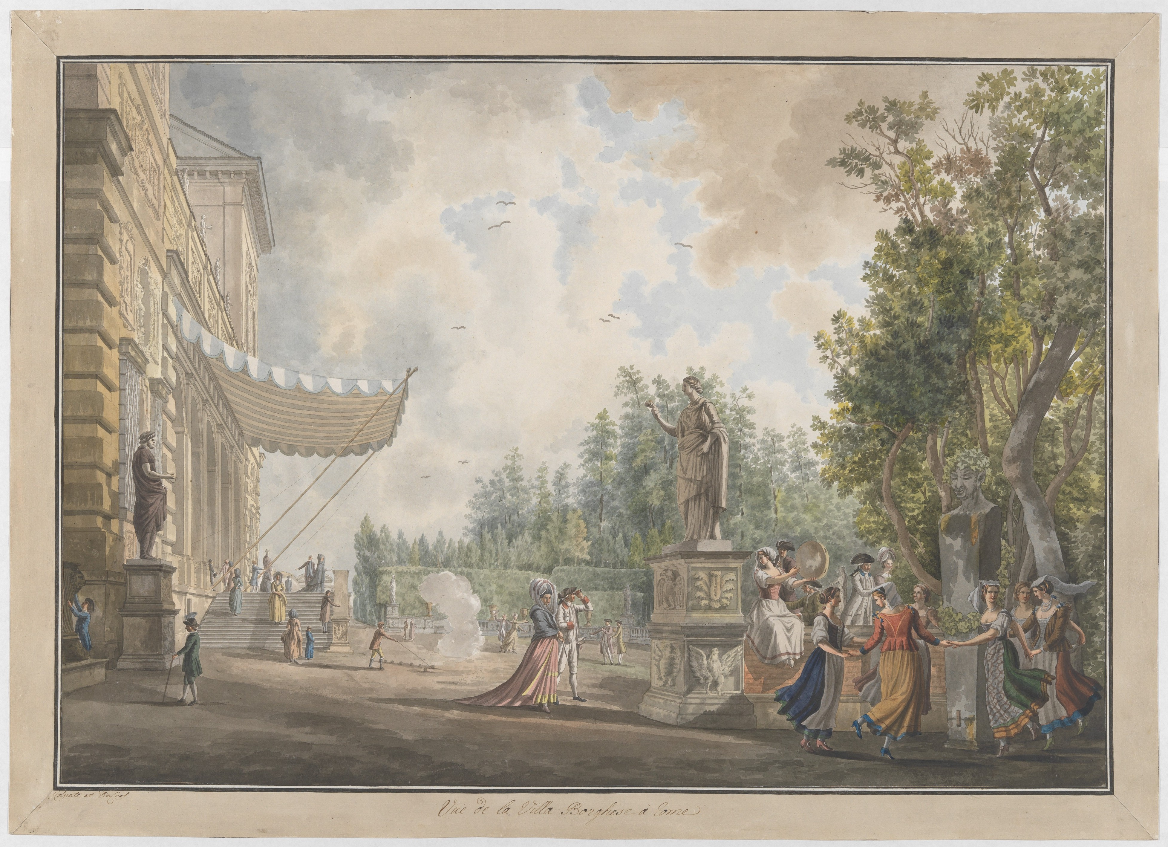 Print; Prints